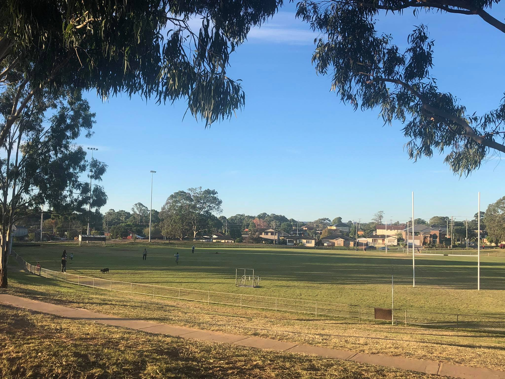 This is a picture of the local park, Grantham Reserve.